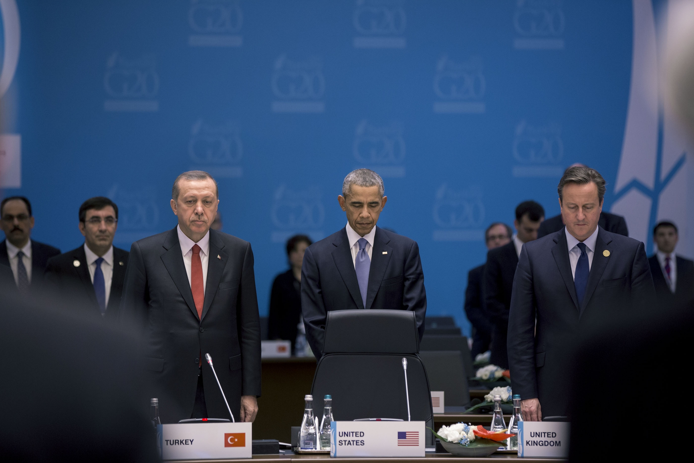 President Barack Obama, President Recep Tayyip Erdoğan of Turkey and Prime Minister David Cameron of the United Kingdom and the other members and staff of the G20 Summit, observe a moment of silence during Working Session One in Antalya, Turkey for the victims of the terrorist attacks in France, Sunday, Nov. 15, 2015.